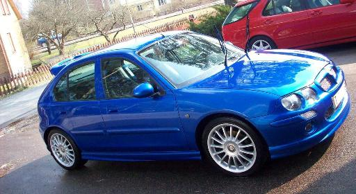 My car on my carport. My car is with orginal rims.